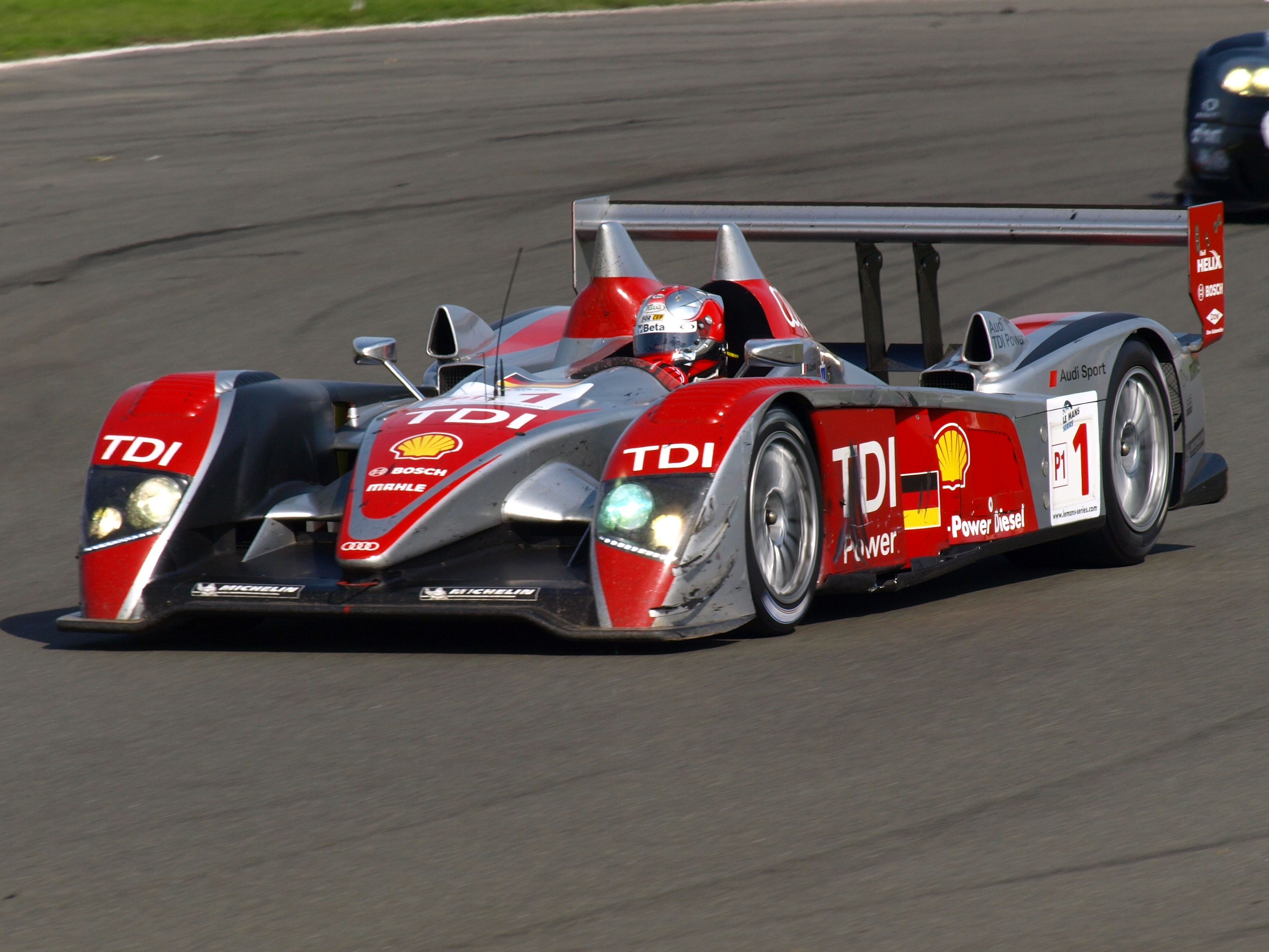 Audi Sport Team Joest's Audi R10 at the 2008 1000km of Silverstone.